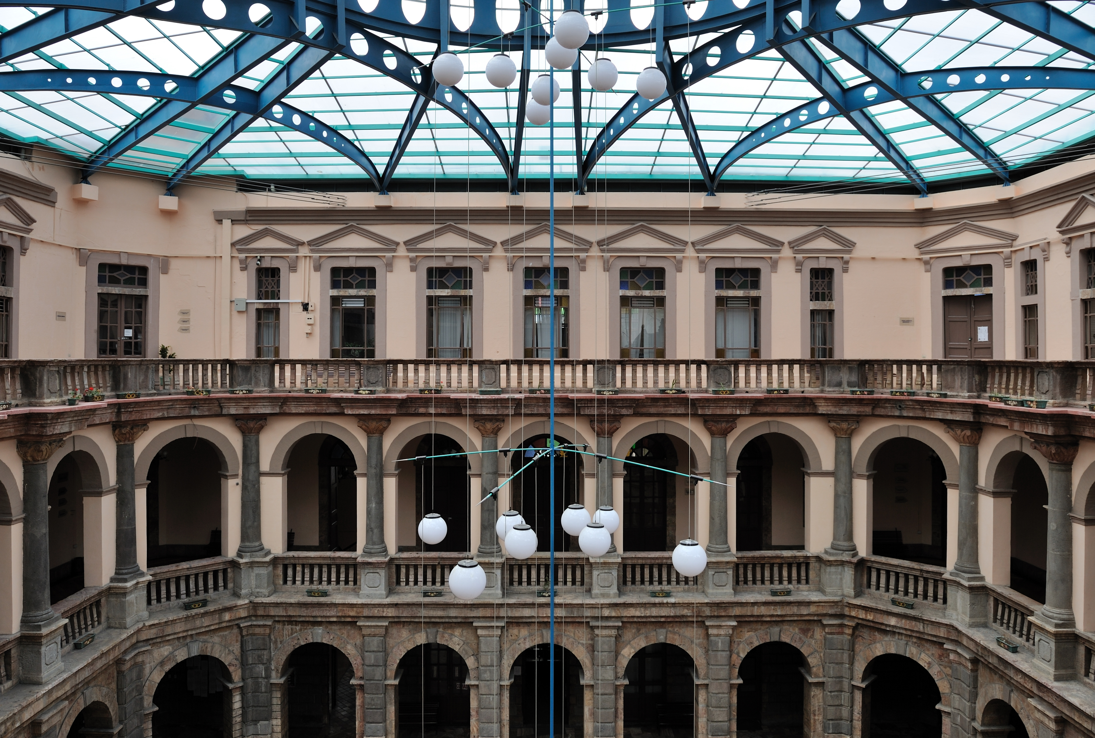 Cuenca, Ecuador: the building that houses the Supreme Court of Justice (Corte Superior de Justicia) in the historical centre of the city.